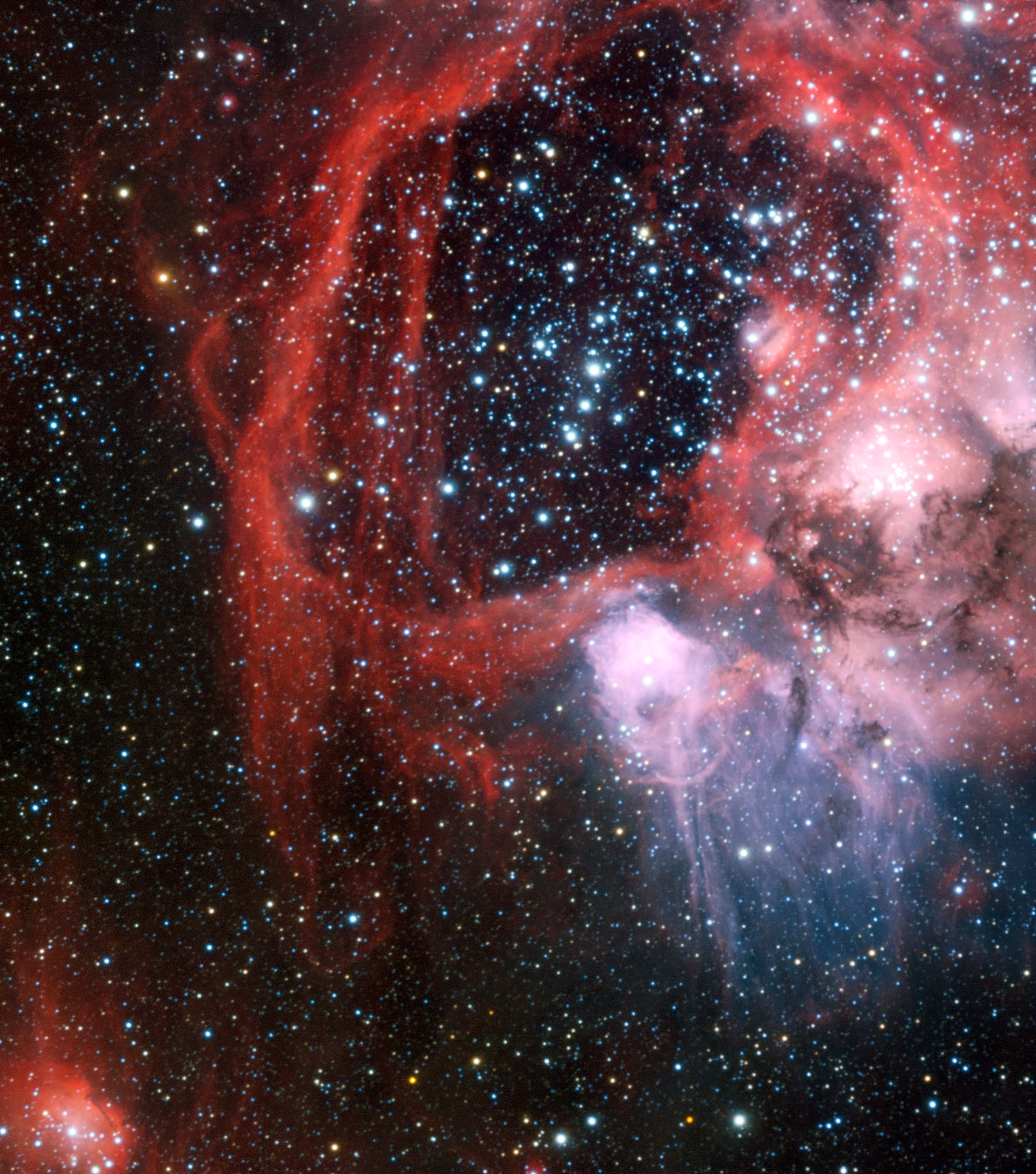 ESO’s Very Large Telescope has been used to obtain this view of the nebula LHA 120-N 44 surrounding the star cluster NGC 1929. Lying within the Large Magellanic Cloud, a satellite galaxy of our own Milky Way, this region of star formation features a colossal superbubble of material expanding outwards due to the influence of the cluster of young stars at its heart that sculpts the interstellar landscape and drives forward the nebula’s evolution.